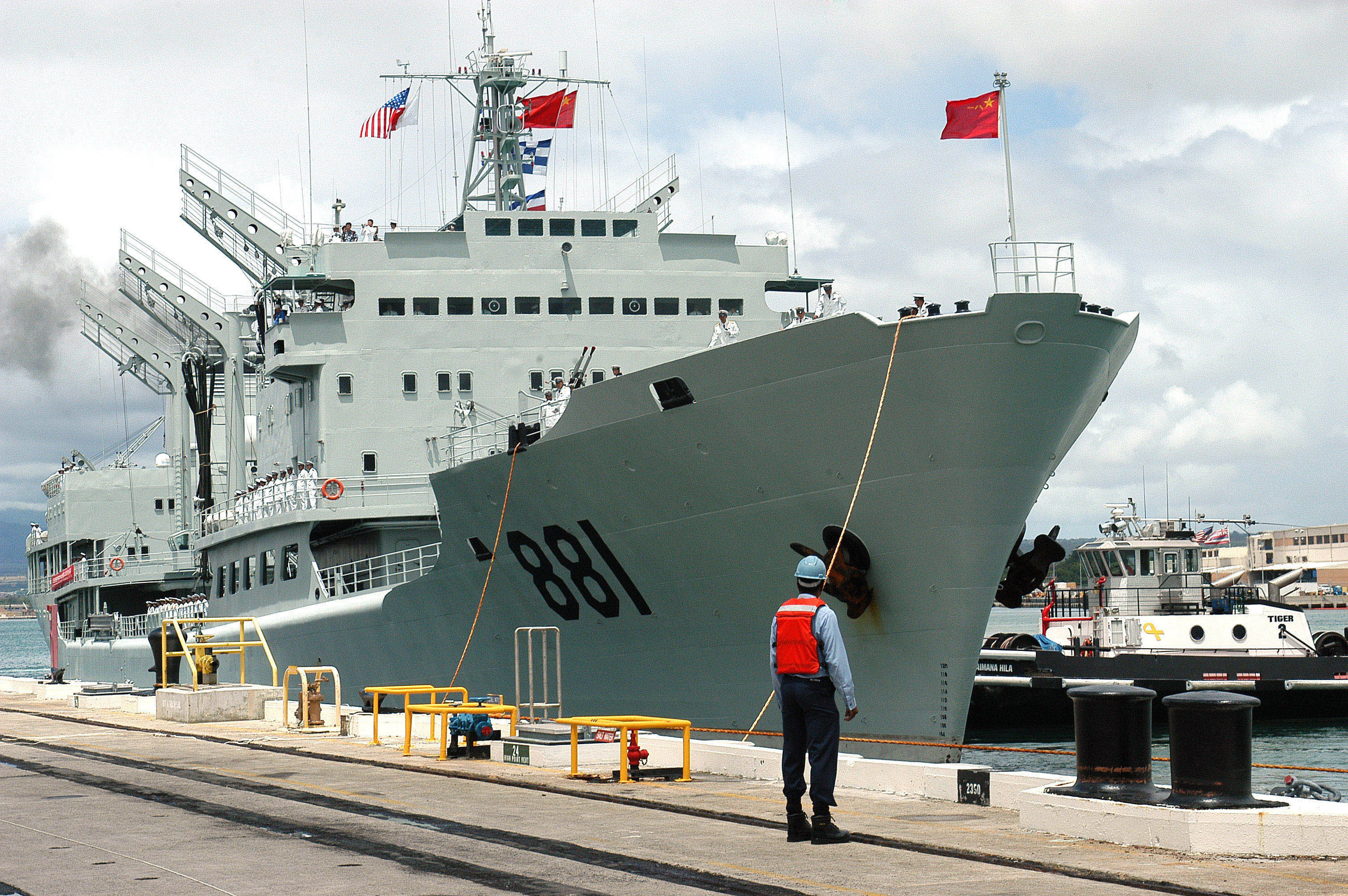 The Chinese navy destroyer Qingdao (DDG 113) moors at the pier in Pearl Harbor, Hawaii, Sept. 6, 2006. The Chinese navy ships Qingdao (DDG 113) and Hongzehu (AOR 881) are in Pearl Harbor for a routine port visit. ID: 060906-N-4856G-051